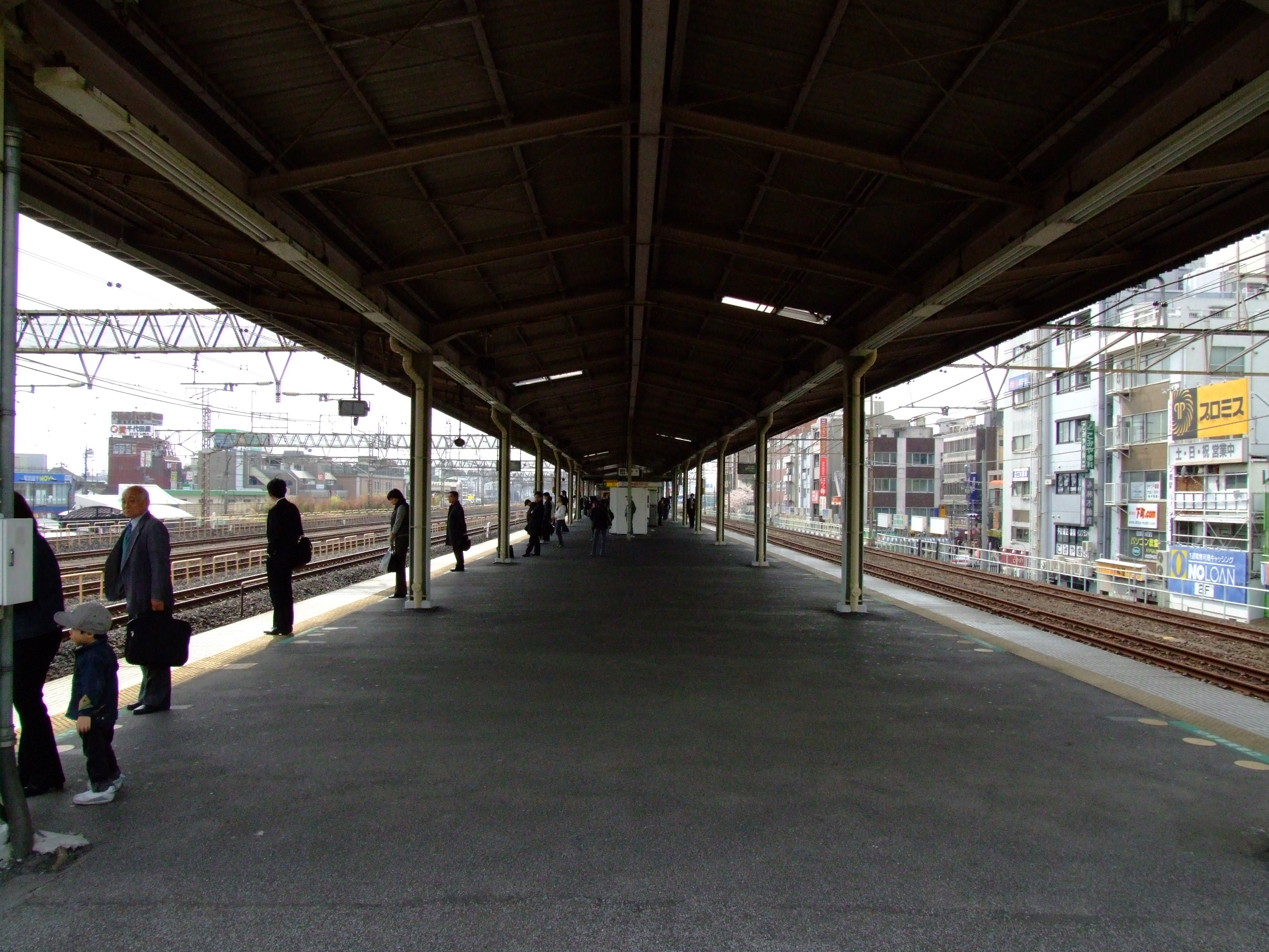 JR Joban line Kanamachi Station platform